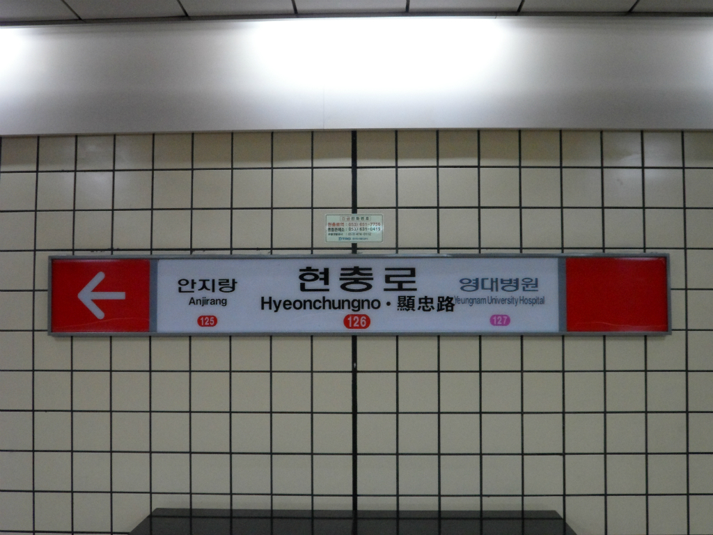 Nameplate of Hyeonchungno Station